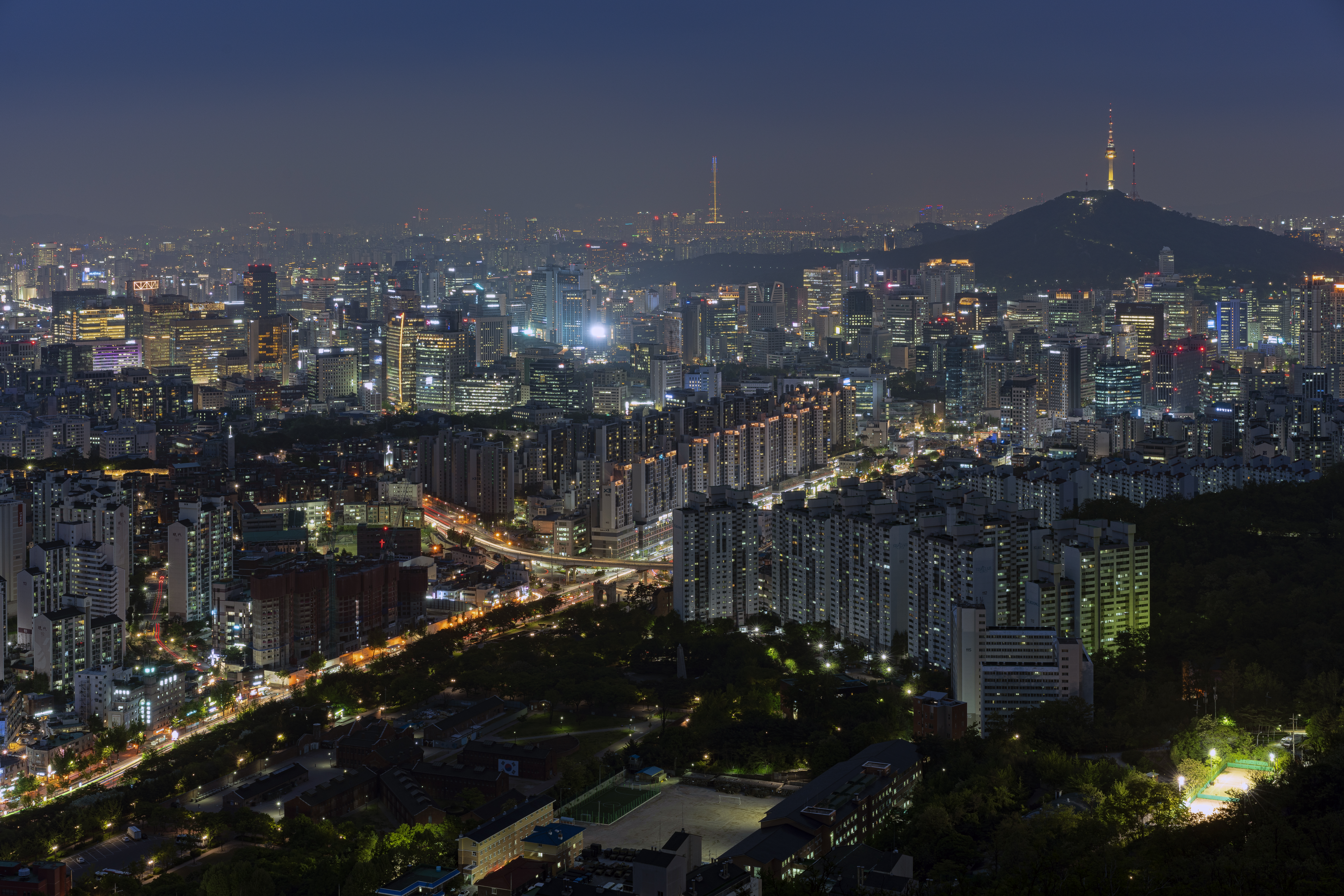 night shot of Seoul from peak of Ansan Mountain smoke signal beacon